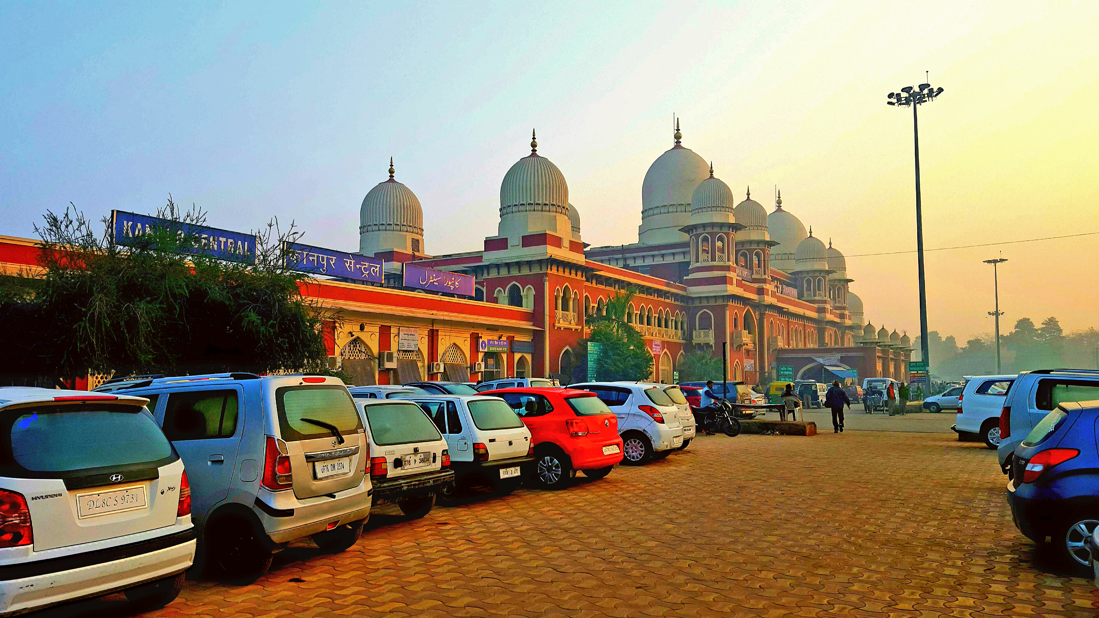 Facade